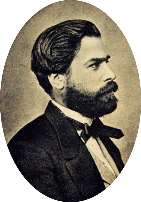 António Maria Barbosa (1825-1892), Portuguese physician